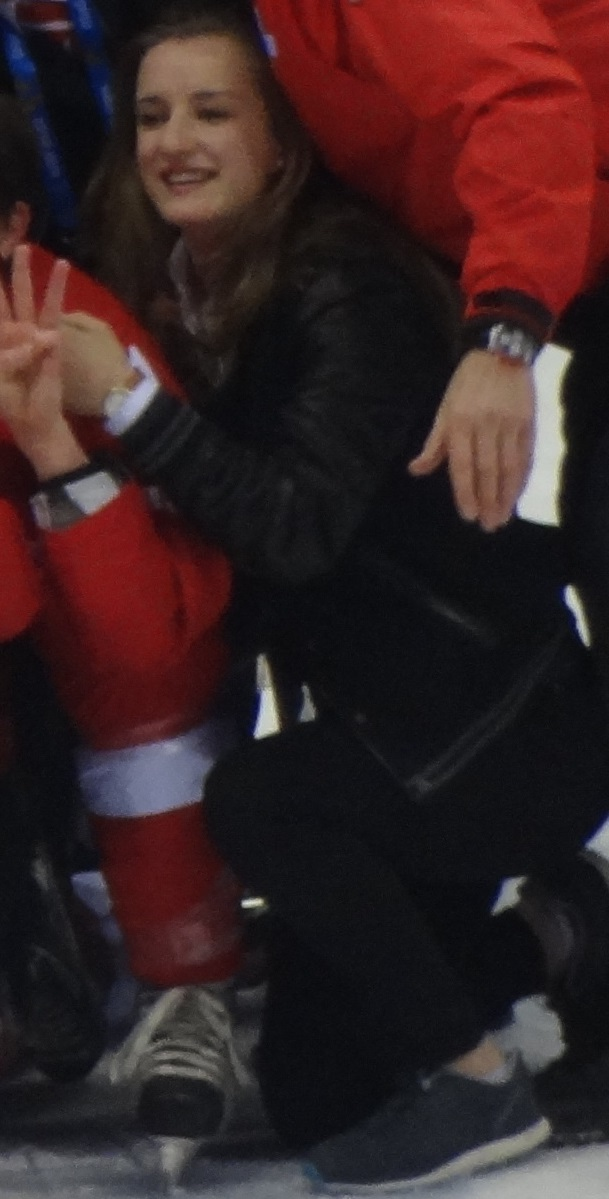 Janine Alder (born July 5, 1995) is a Swiss ice hockey goaltender who plays internationally for the Switzerland women's national ice hockey team. She has represented Switzerland at the Winter Olympics in 2014 and won the bronze medal after defeating Sweden in the bronze medal playoff.[1]